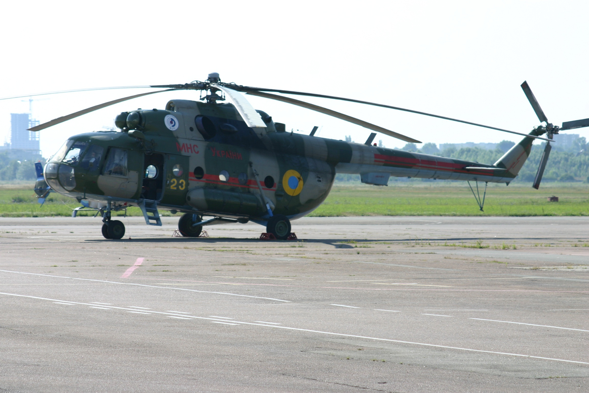 At Kiev - Zhulhany